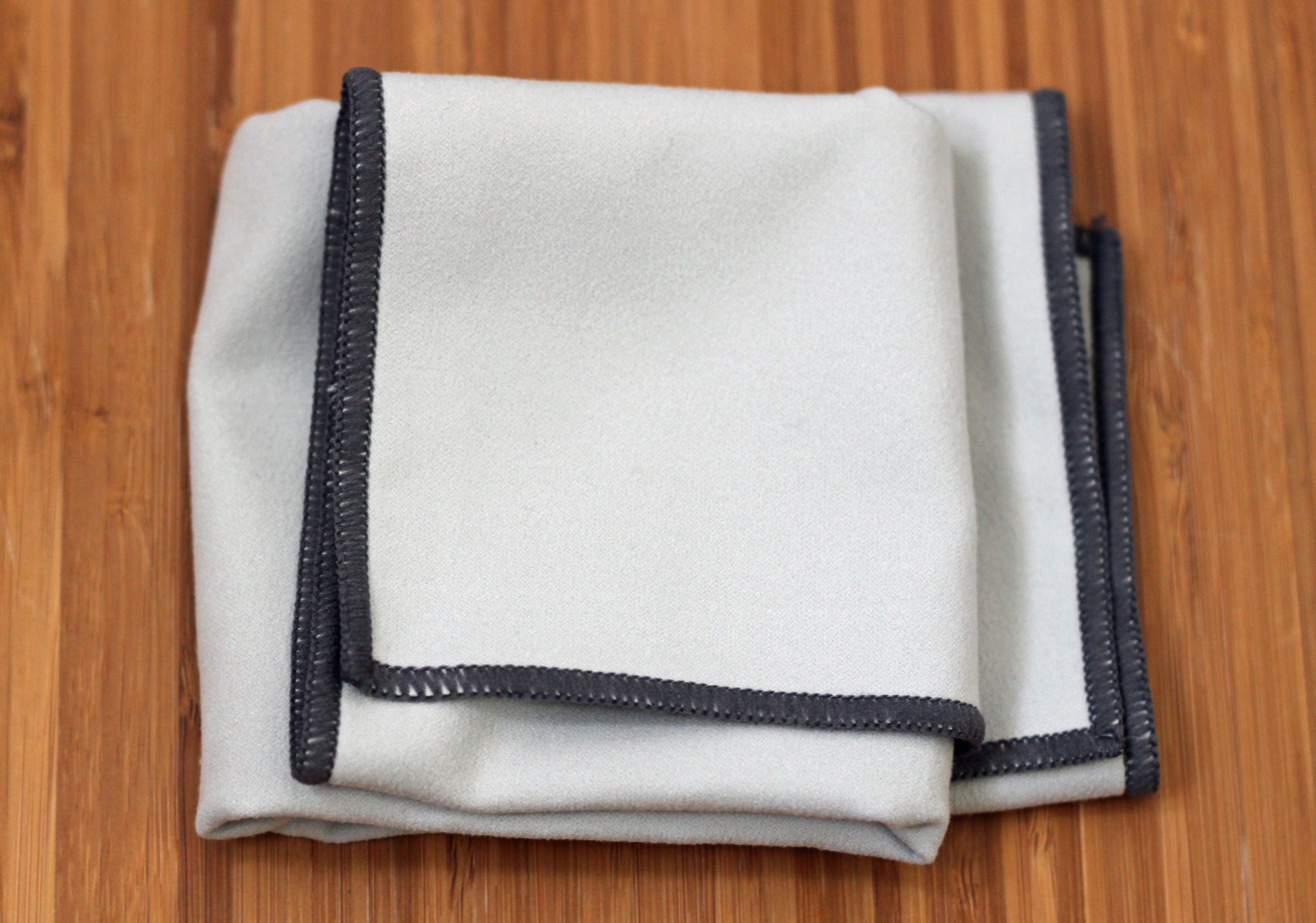 Dust-Off Micro-Fiber Screen Shammy for cleaning computer screens, camera lenses, etc.